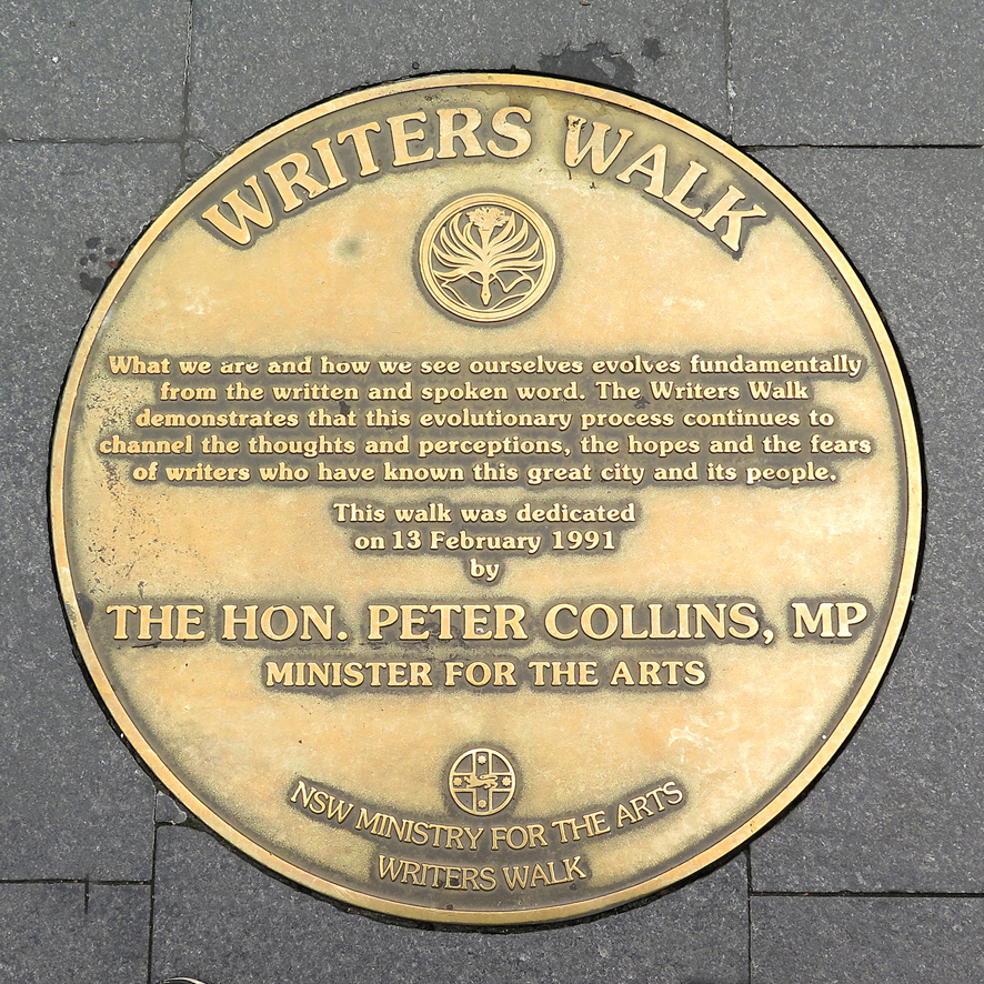 A plaque in the Sydney Writers Walk series at Circular Quay - dedication The Hon. Peter Collins MP